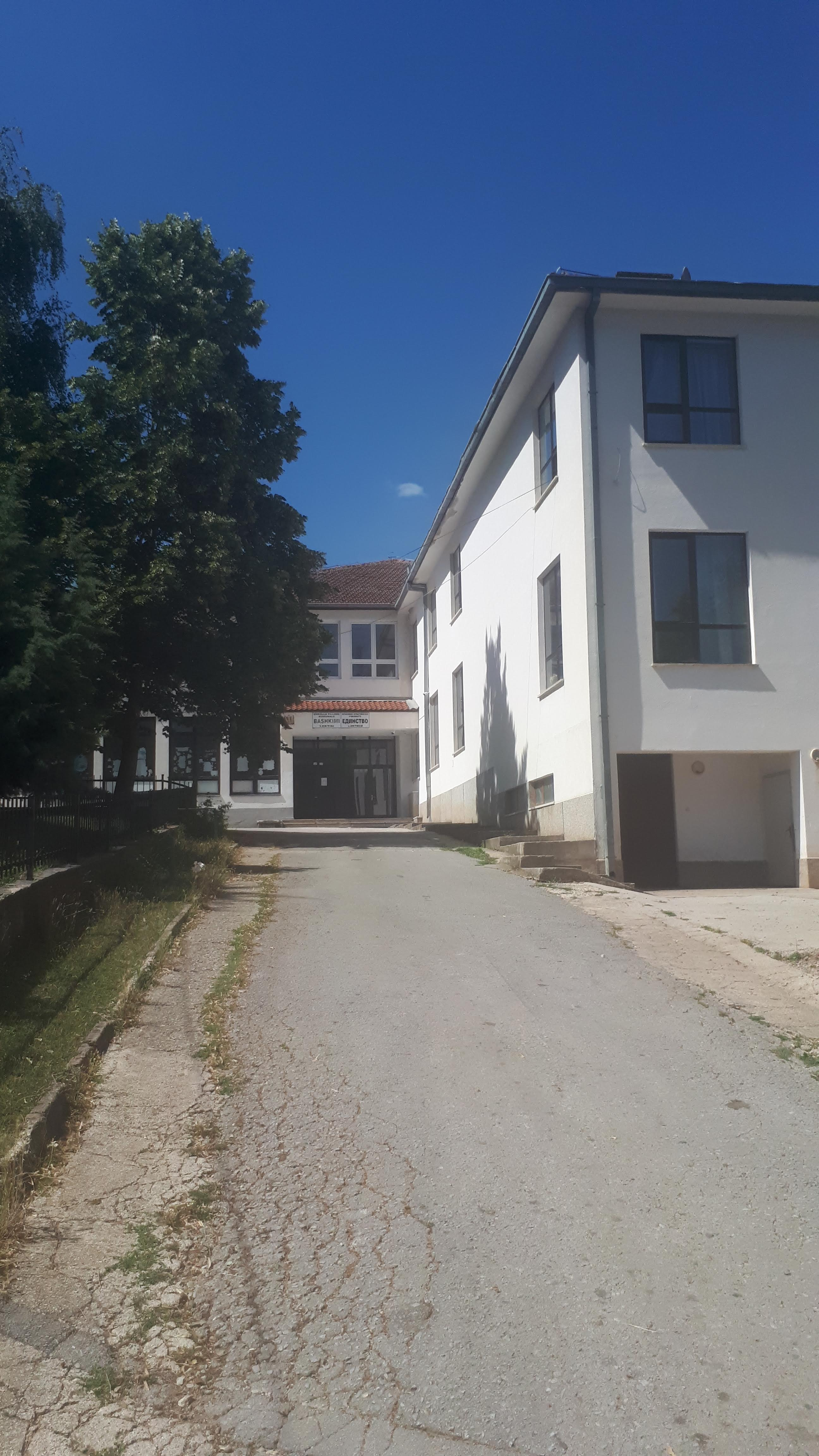 Edinstvo Primar School in the village of Oktisi